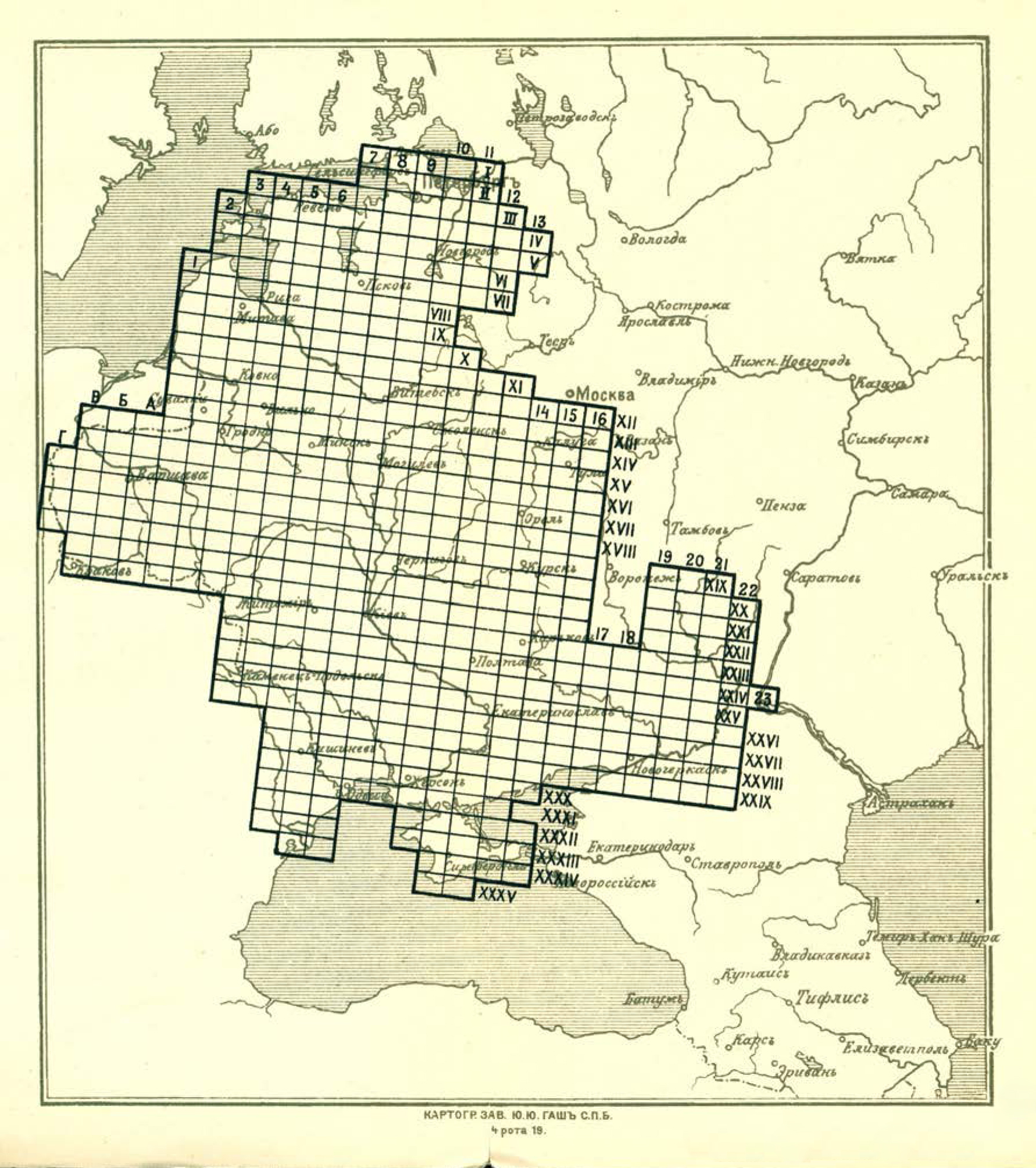 Map of the Russian Imperia 3 verst